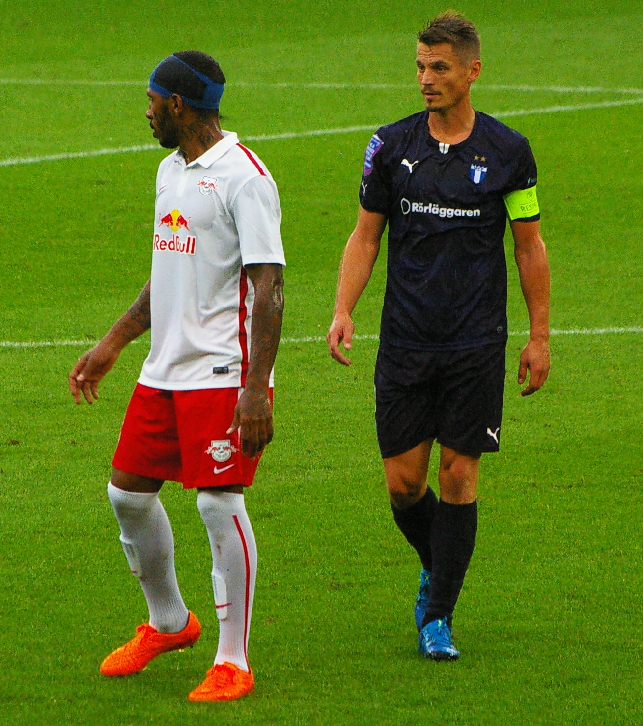 CL qualifing match 3rd round 1st leg